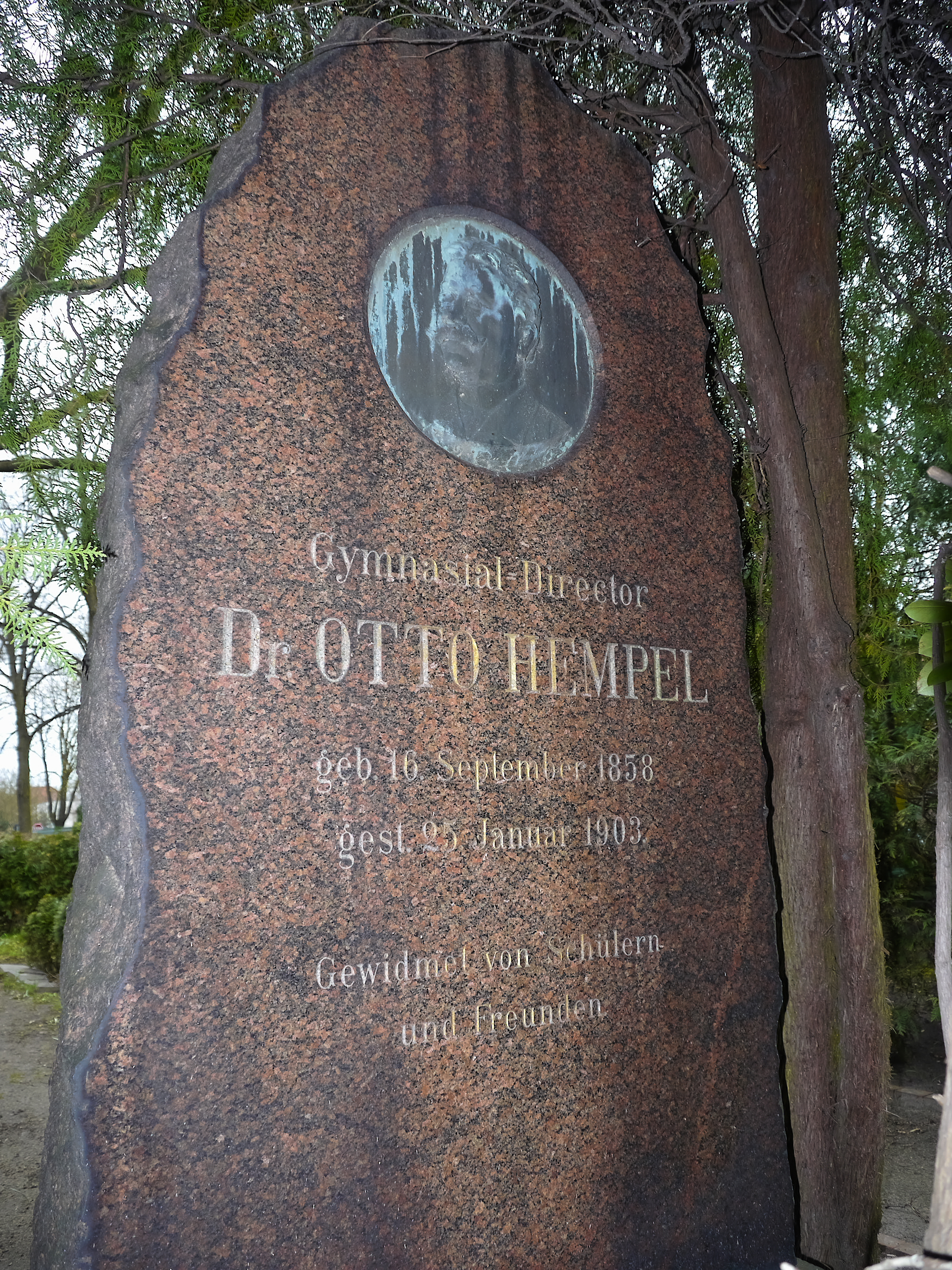 Tombstone of Otto Hempel (1858-1903)